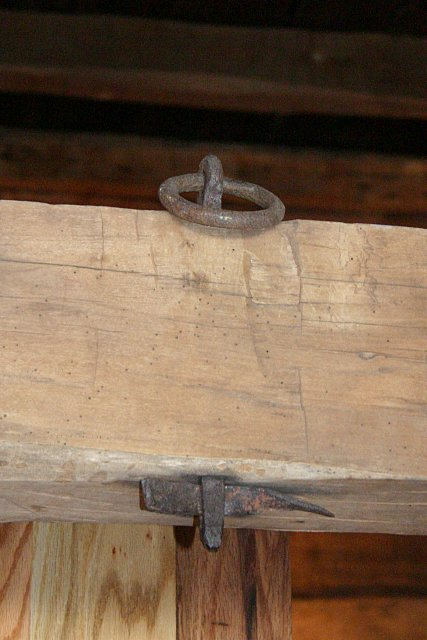 An original shackle ring attached to the second floor joist in the Slave Pen at the National Underground Railroad Freedom Center in Cincinnati.